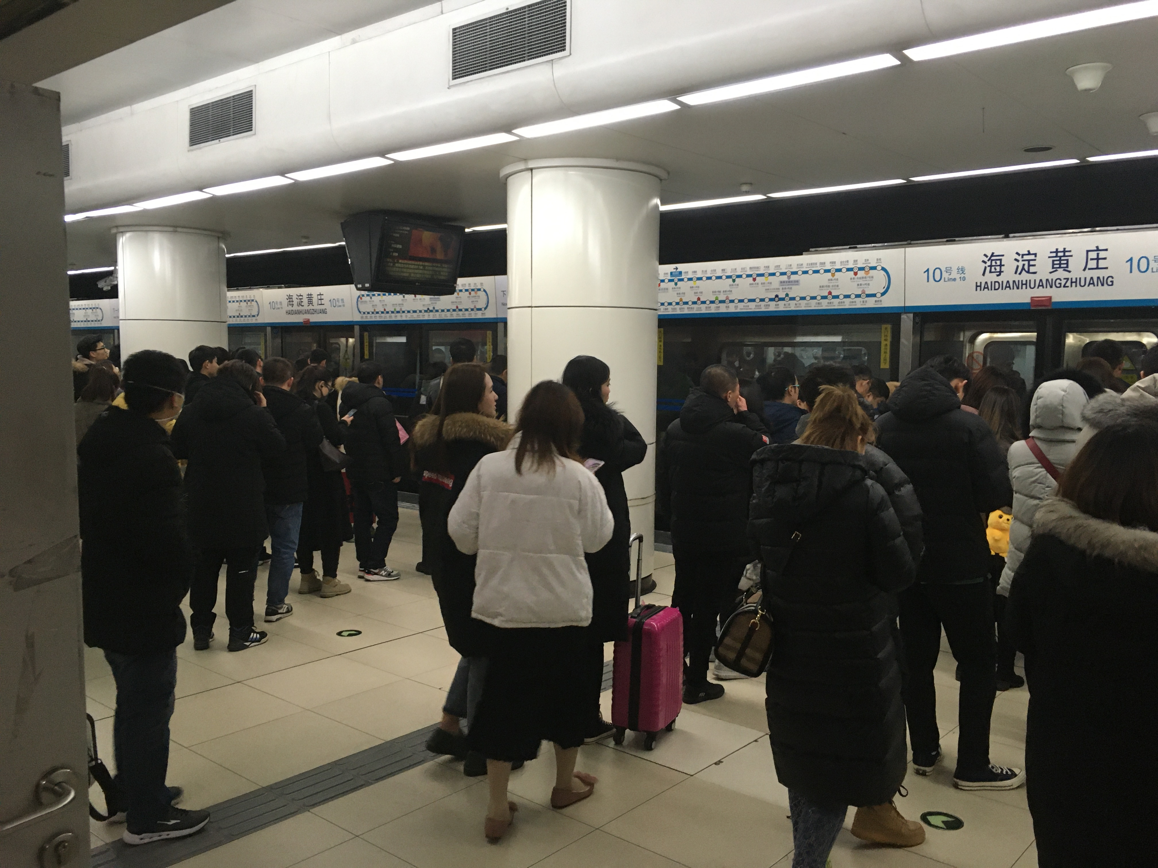 Clockwise platform.